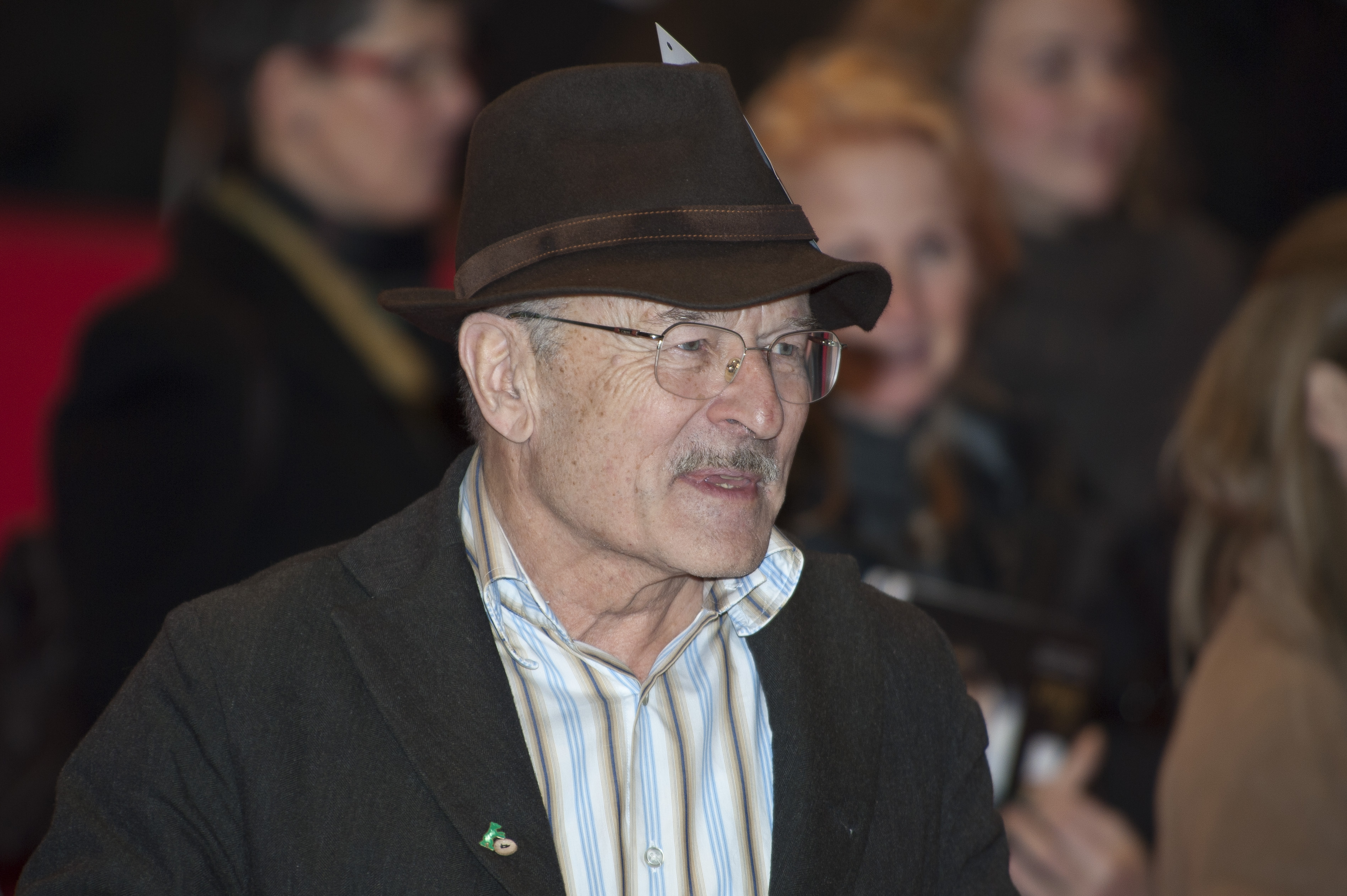 Volker Schlöndorff at the premiere of the movie Margin Call at the Berlin Film Festival 2011